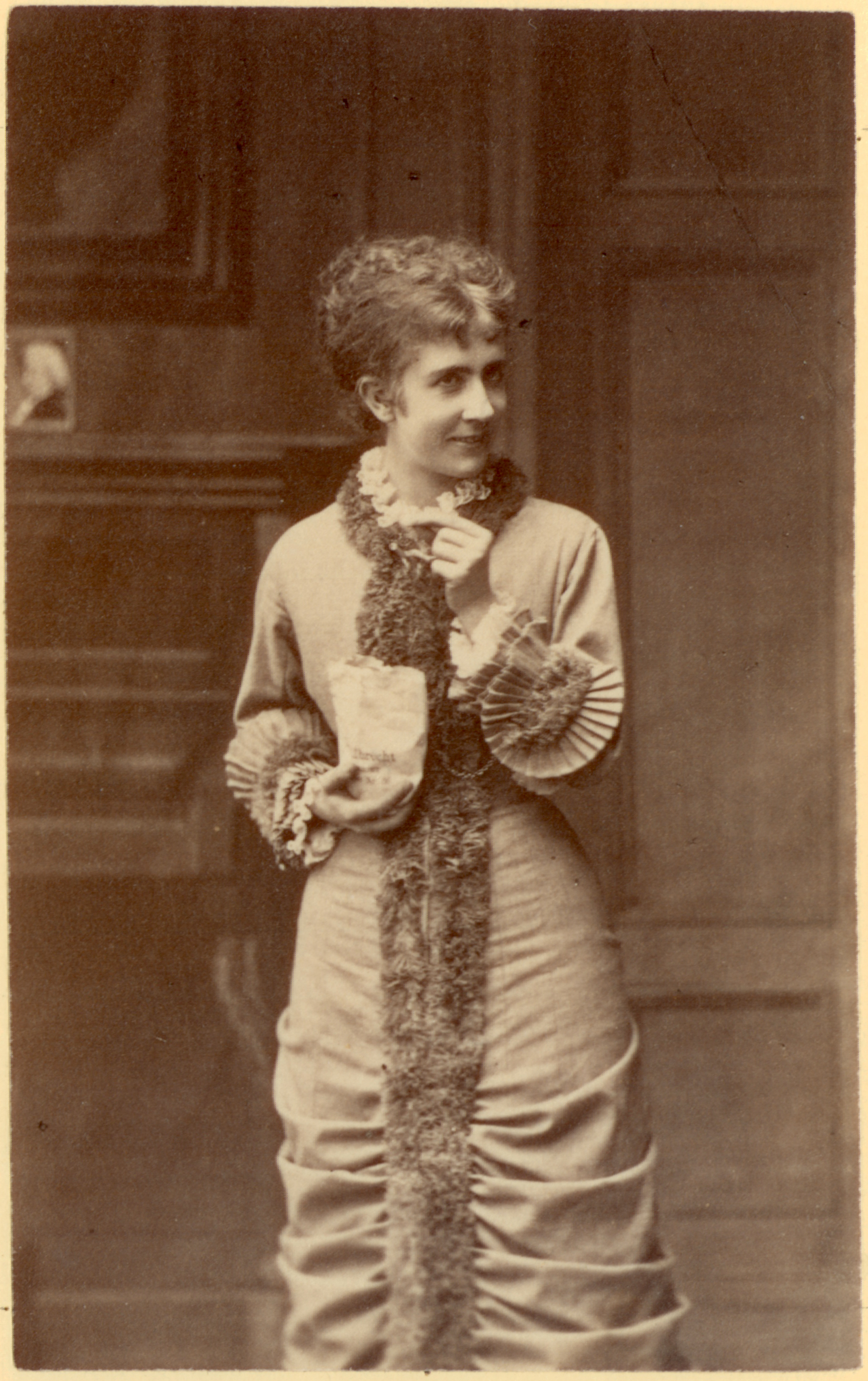 Betty Hennings (1850-1939) as Nora in the first performance of A Doll's House at The Royal Theatre in Copenhagen. The picture is either taken in 1879 or 1880.